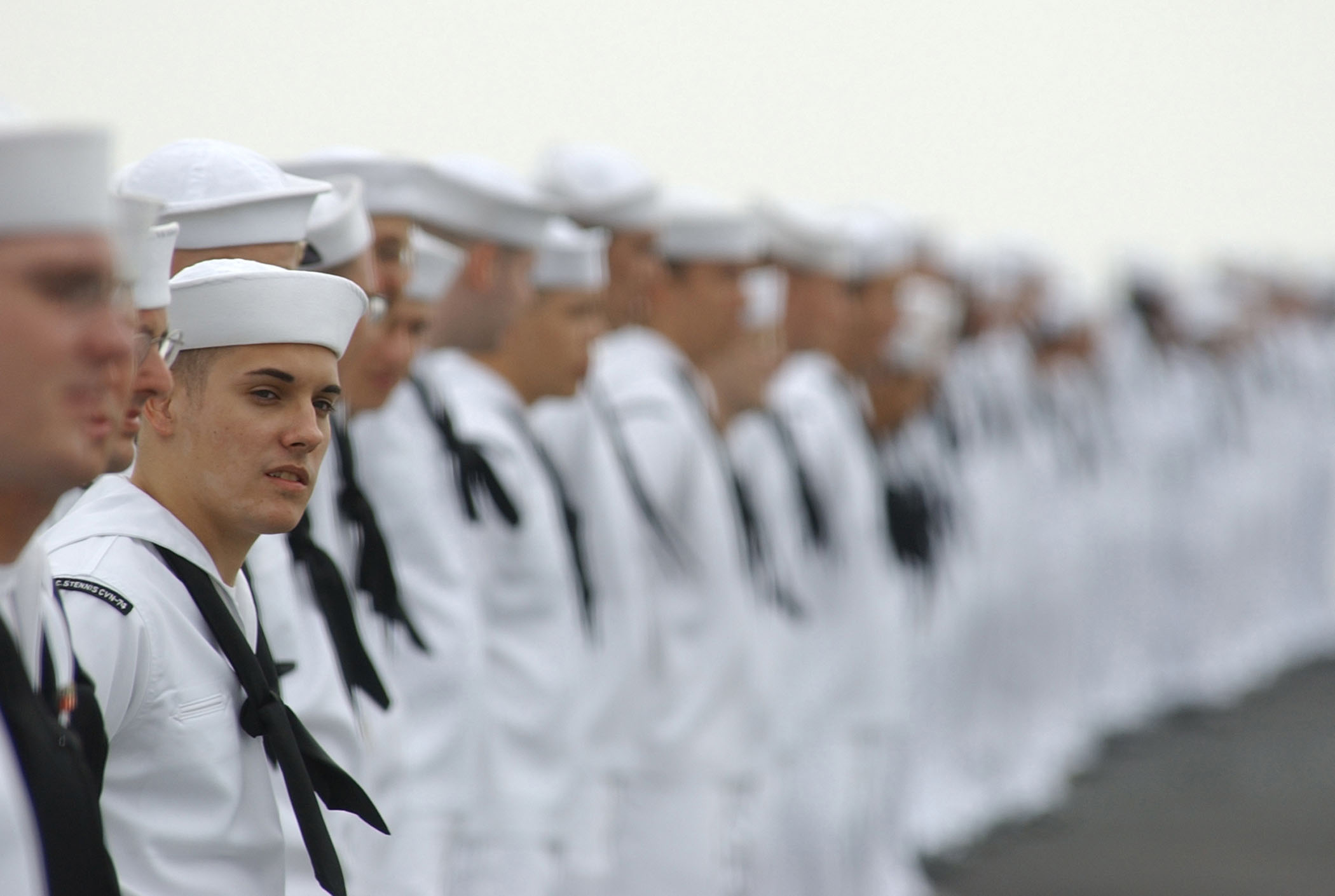 Pacific Ocean (Oct. 4, 2003) -- Machinist's Mate 2nd Class Chad Mullins, from Murfreesboro Tenn., and other sailors "man the rails" on the flight deck of USS John C. Stennis (CVN 74) as the ship arrives in port for the annual San Diego Fleet Week parade of ships ceremony. U.S. Navy photo by Photographer's Mate 3rd Class Joshua Word. (RELEASED)